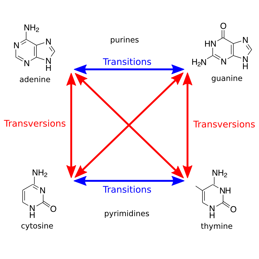 Definition of transitions and transversions.